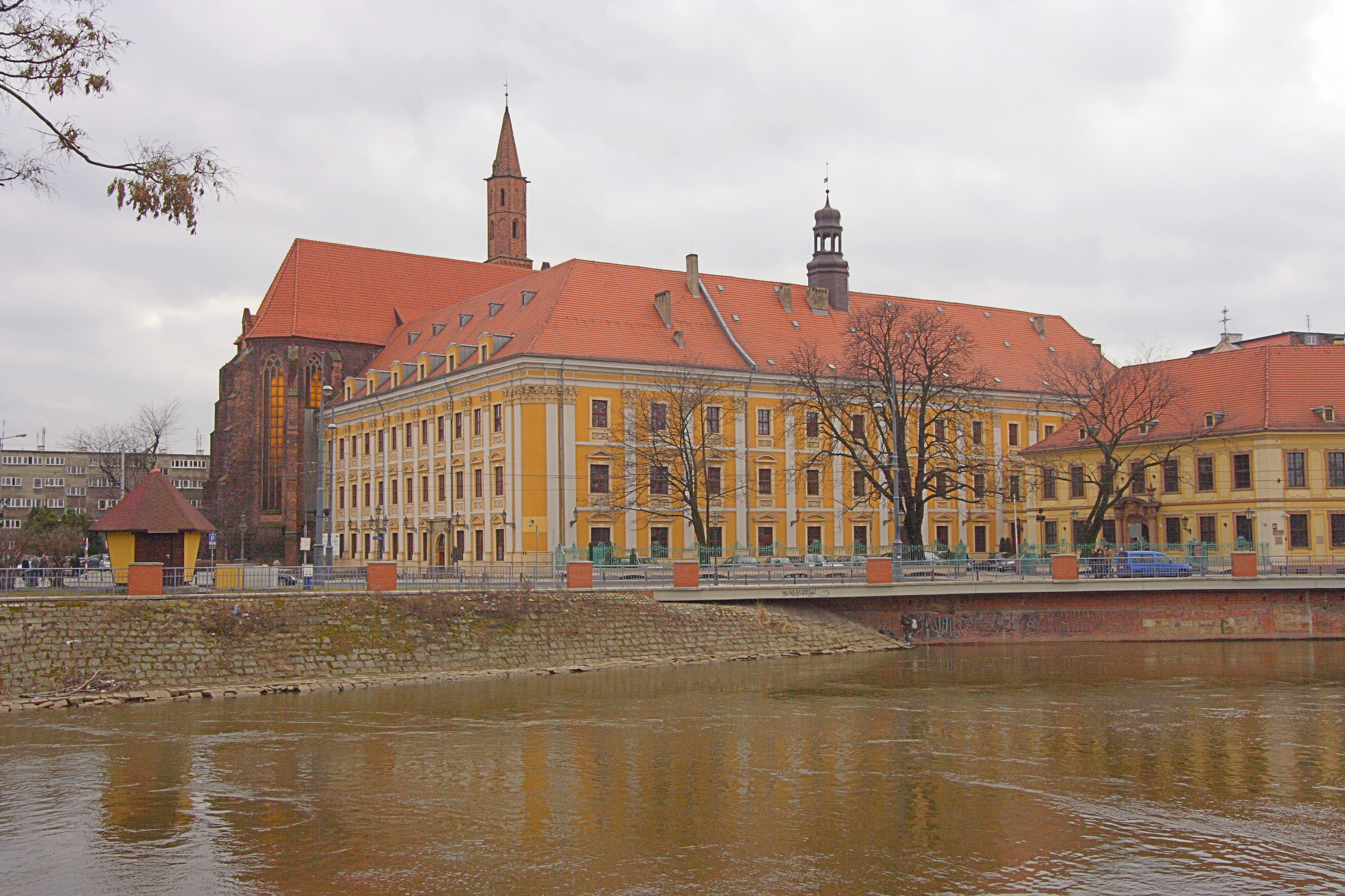 Wroclaw during WikiConference Poland'11